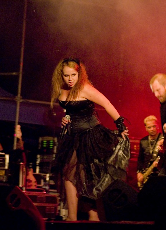 Therion live in Płock, Poland, 2008-09-06.